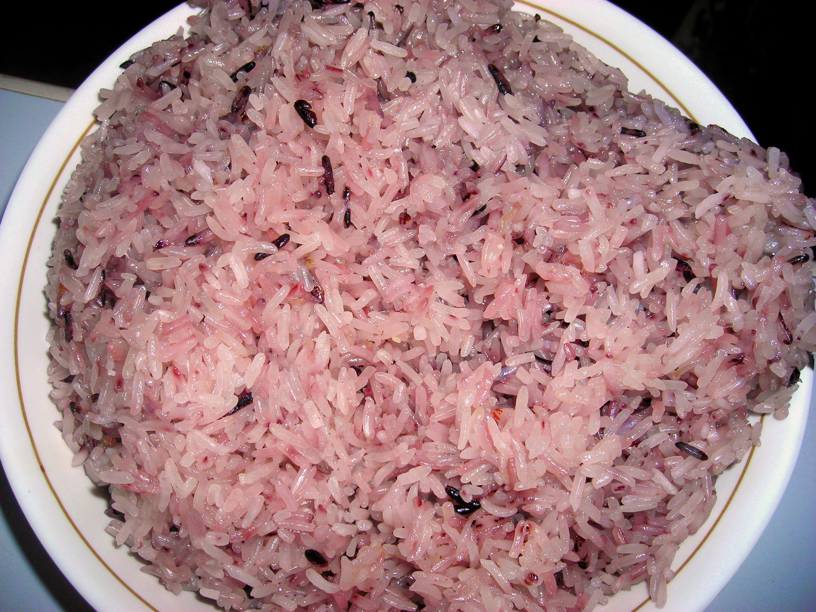 "Khao Kam" (black sticky rice) - Thailand.